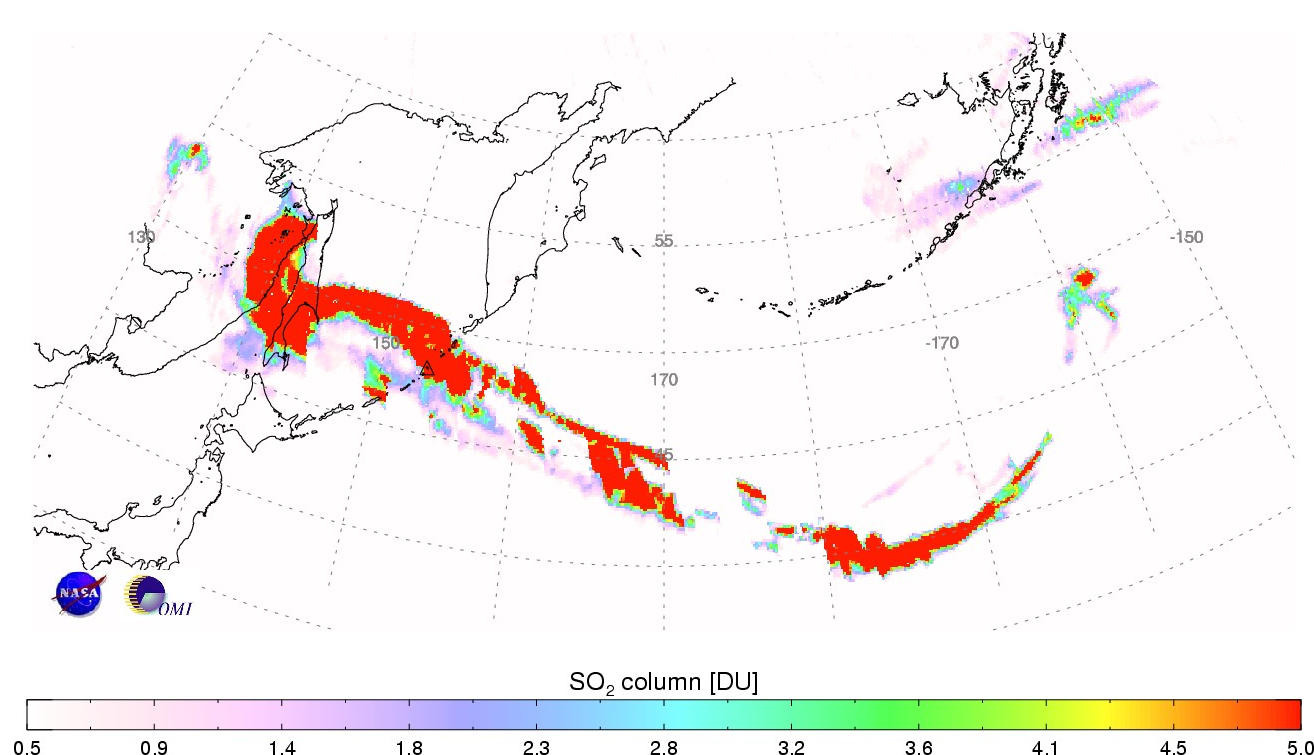 This image shows average column sulphur dioxide concentrations from Sarychev Peak between June 10 and June 17, 2009 (in Dobson Units).